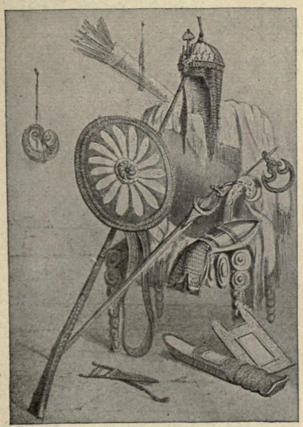 The book of history. A history of all nations from the earliest times to the present, with over 8,000 illustrations ([1915?-21]) Author: Bryce, James Bryce, Viscount, 1838-1922; Thompson, Holland, 1873-1940; Petrie, W. M. Flinders (William Matthew Flinders), Sir, 1853-1942 Volume: 3 Subject: World history Publisher: New York : The Grolier society; London, The Educational book co. Possible copyright status: NOT_IN_COPYRIGHT Language: English Call number: srlf_ucla:LAGE-623290 Digitizing sponsor: MSN Book contributor: University of California Libraries Collection: cdl; americana Full catalog record: MARCXML [Open Library icon]This book has an editable web page on Open Library